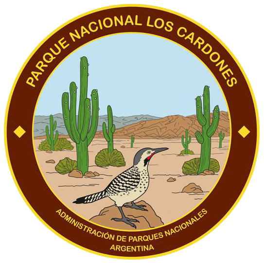 Logo of Argentine Los Cardones national park, of Salta Province.